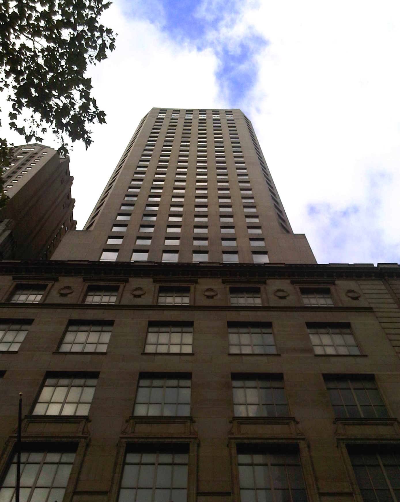 The former Swiss Bank Tower at 10 East 50th Street between Fifth Avenue and Madison Avenue in New York City. The building is connected to Saks Fifth Avenue and serves as an extension of the store on its first 9 Floors